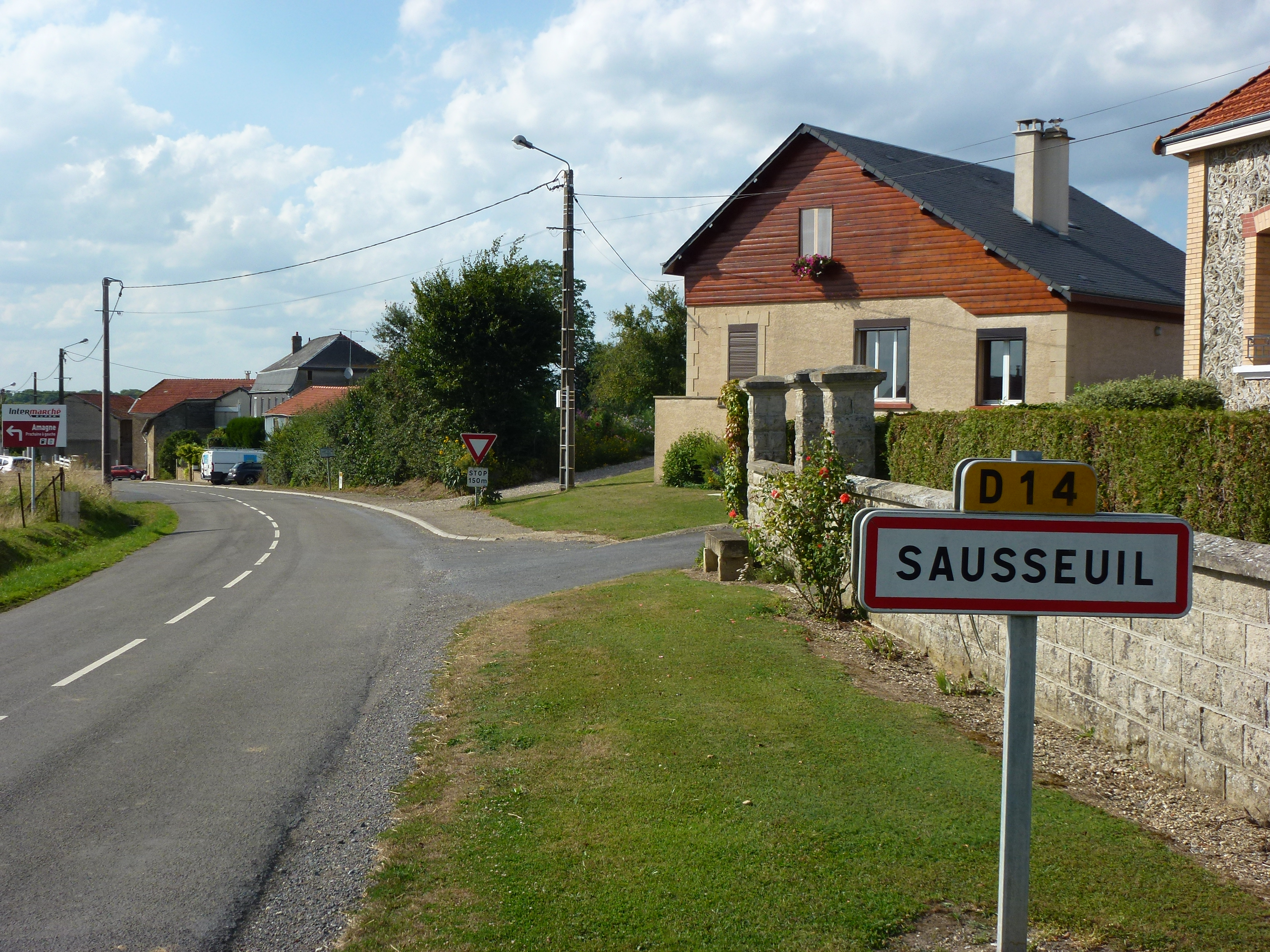 Alland'Huy-et-Sausseuil (Ardennes) city limit sign Sausseuil